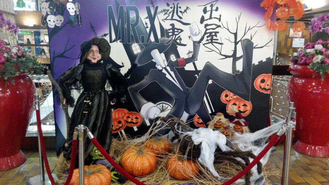 This is a photo showing a display of escaping games found in Hung Hom